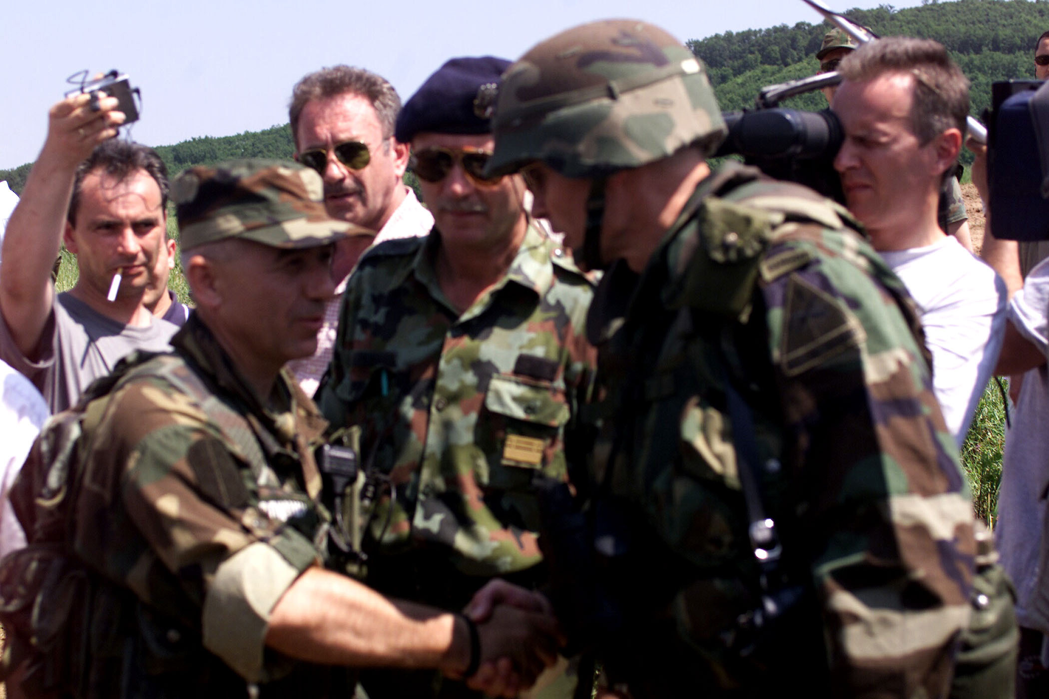 Brig. Gen. Kenneth Quinlan (foreground, right), the Commanding General of Task Force Falcon meets the MUP (Serbian Special Police Force) Chief at the administrative boundary between Kosovo and Serbia during a meeting to discuss the success of the Ground Safety Zone reduction on May 30, 2001. (U.S. Army photo by Spc. Richard F. Cancellieri) (Released)